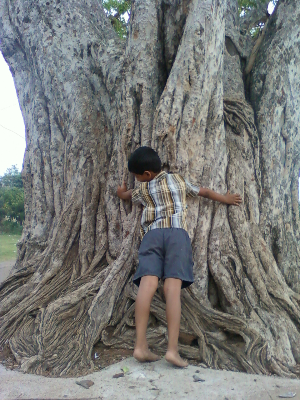 An age old peepul tree (Arasamaram) found in Shanmuga Industries Government Higher Secondary School in Tiruvannamalai, is being embraced by a boy.